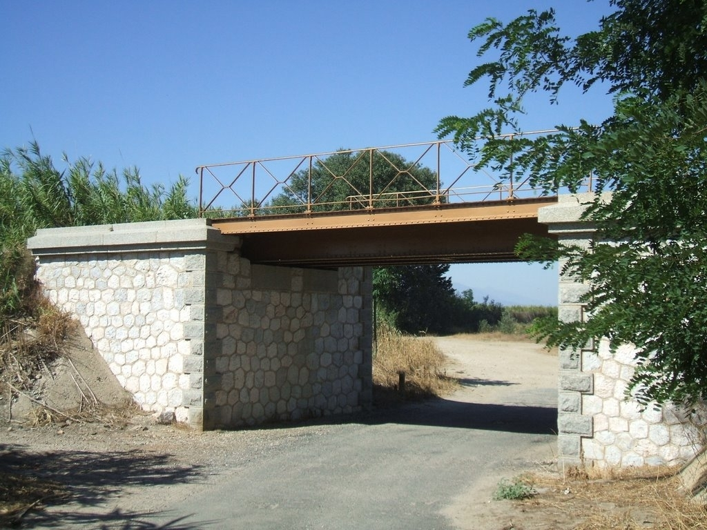 Claira : old bridge of the former Rivesaltes to Le Barcarès railway line (The Mata Burros), dismantled in the 1950s.